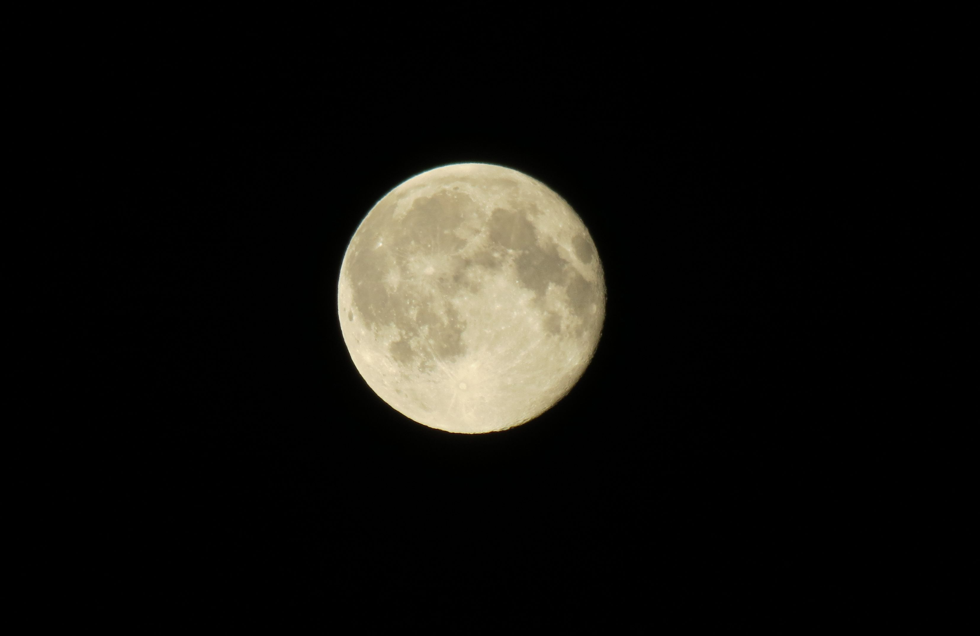 Blue moon, July 31 2015 taken in Port Coquitlam, BC, Canada